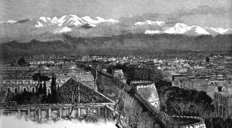 view of part of Tehran, Iran, and the Shimran and Elburz mountains